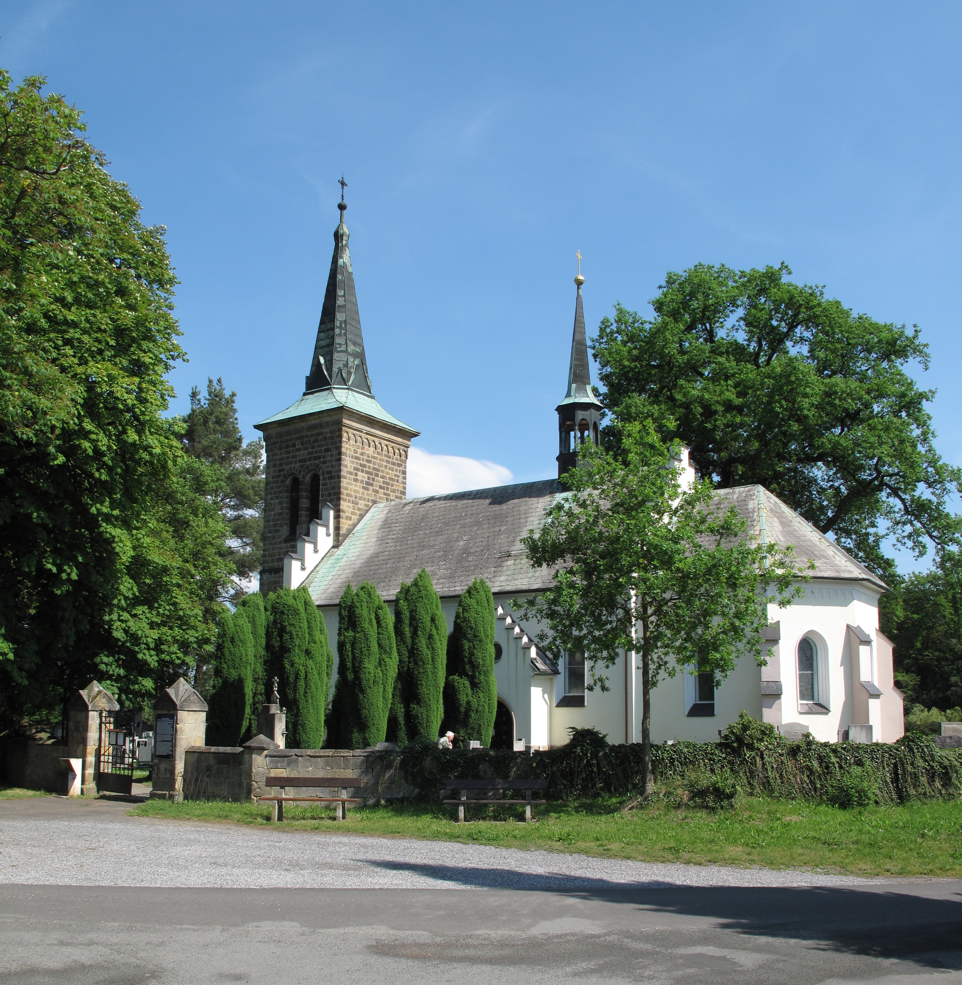 Church of St. George in Karlovice (near Sedmihorky village), Semily District, Czech Republic.